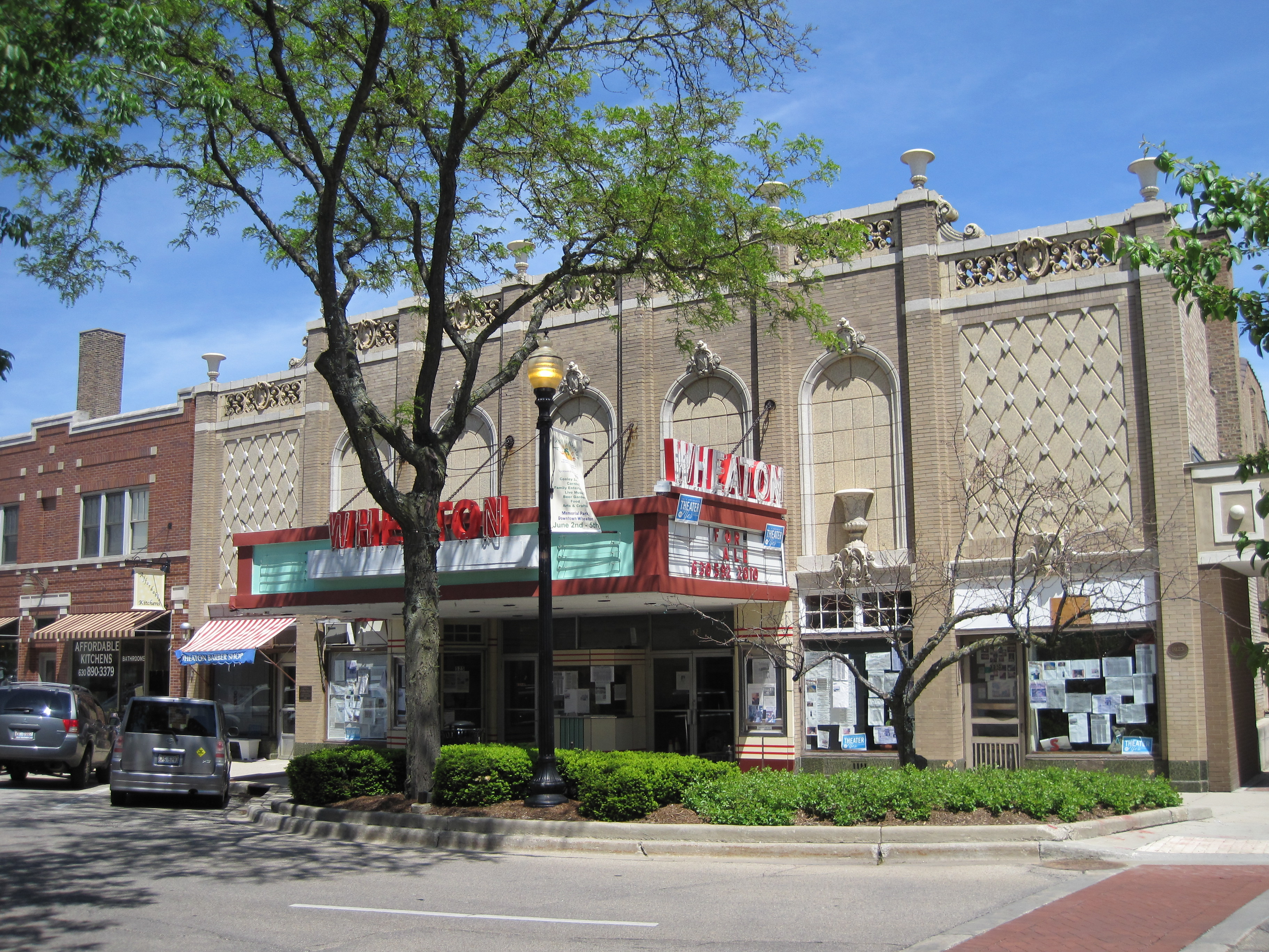 I (Teemu08 (talk)) took this image on May 27, 2011.